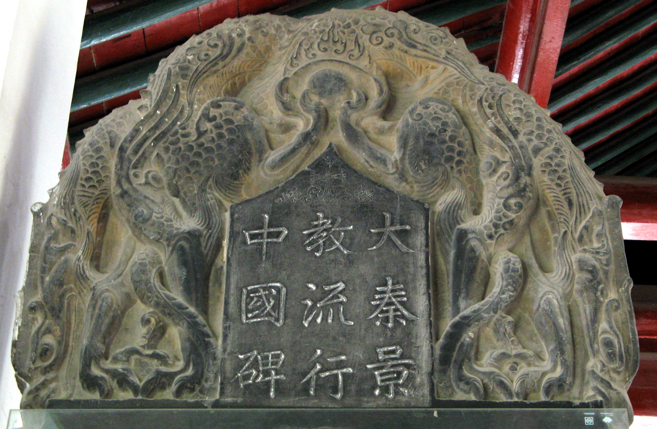 Nestorian Stele. Beilin Museum ("Forest of Steles"), Xi'an The stele displays a cross at the top of its inscription. Written in Chinese and Syriac, it records the existence of Nestorian Christianity during the Tang dynasty when "The religion spread throughout the ten provinces ... [and] monasteries abound in a hundred cities." It was carved in 781 AD.